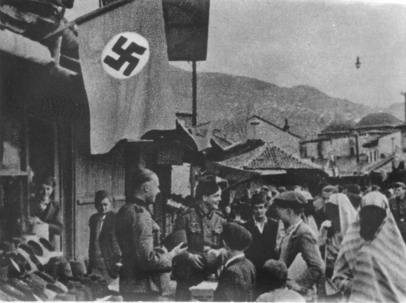 Sarajevo during the occupation in WWII. Baščaršija, 1943.